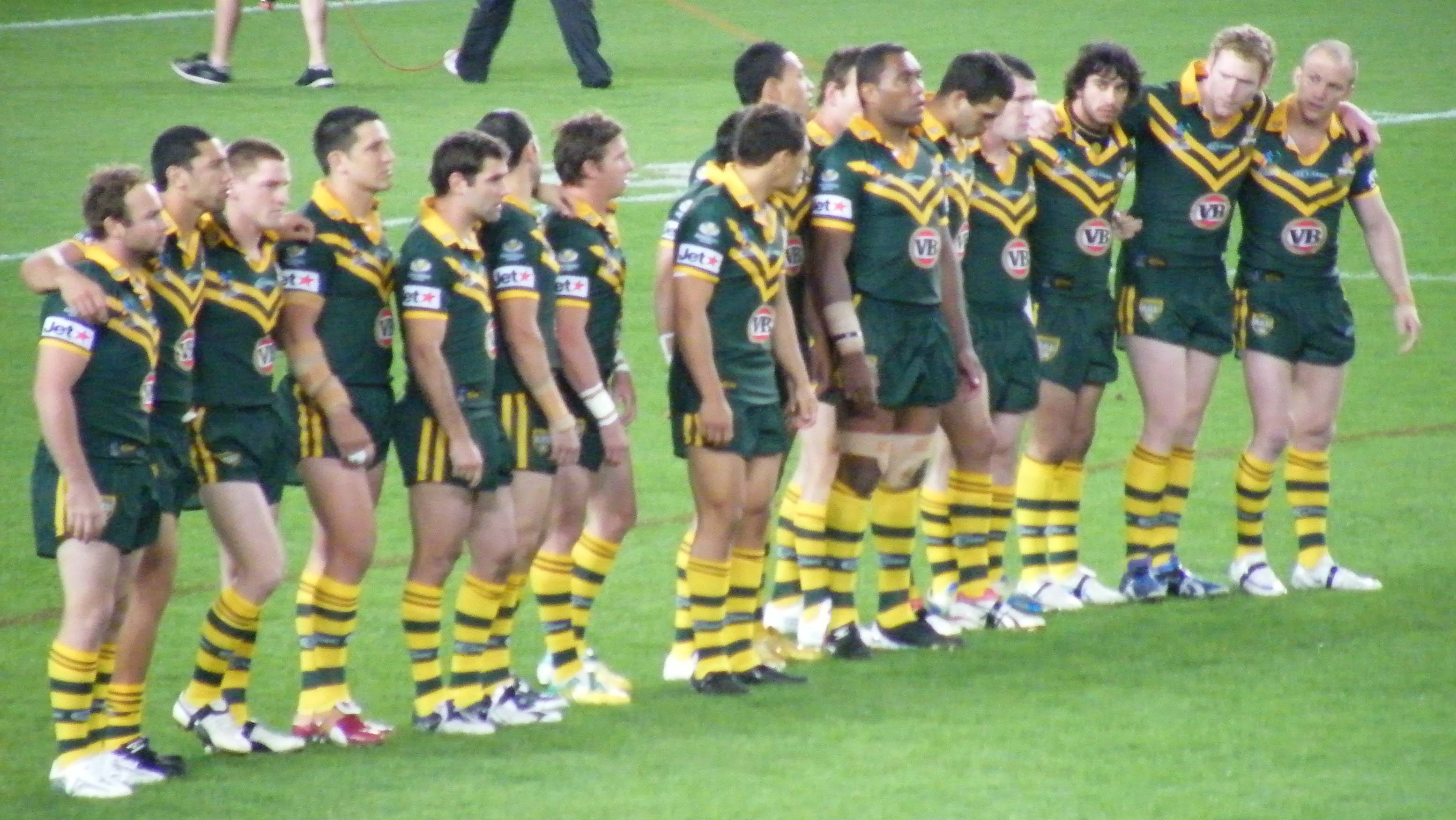 Australian Rugby League Team face the NZ Haka. RLWC 2008.